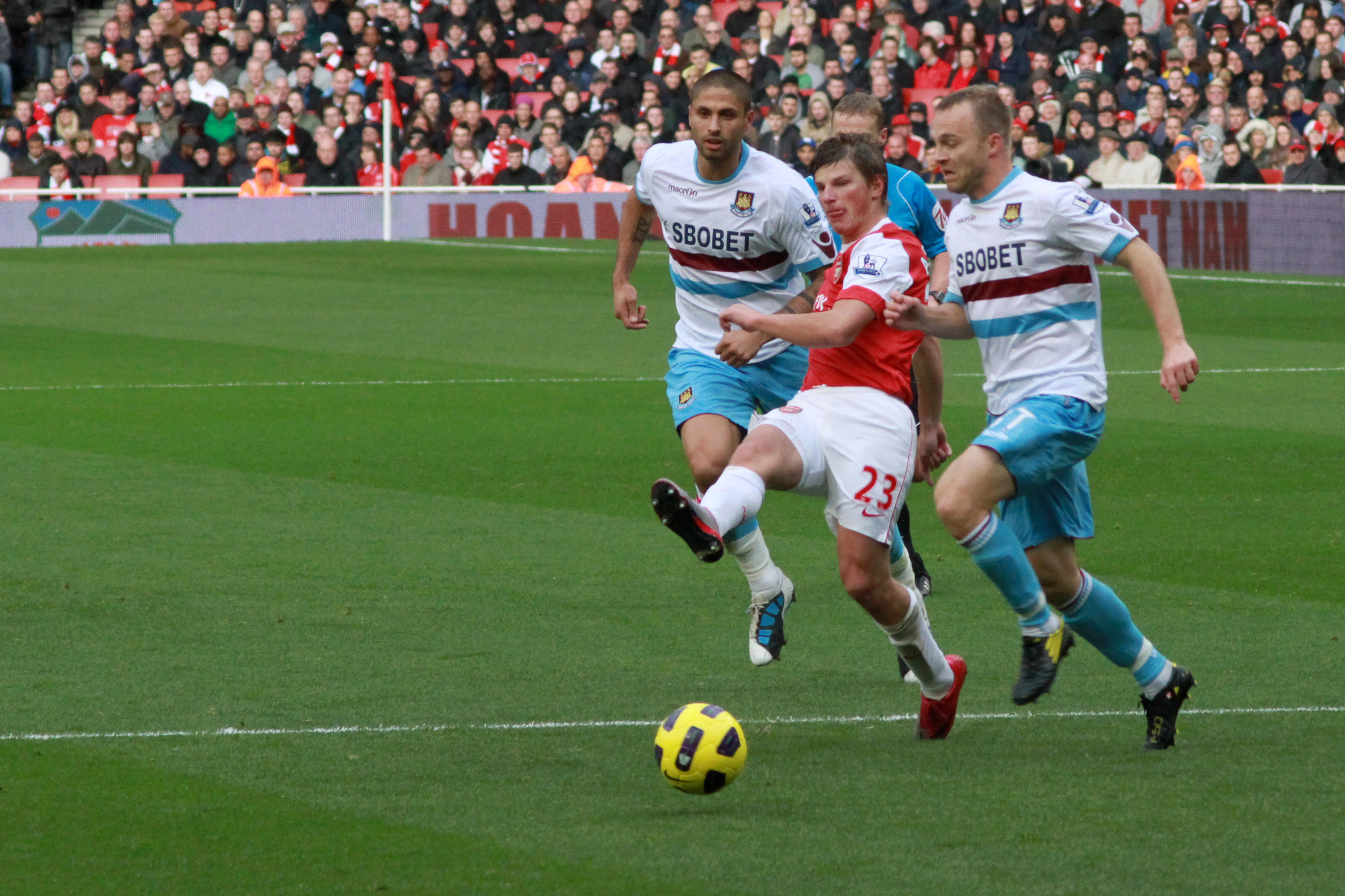 Andrei Arshavin of Arsenal defended by Manuel da Costa and Lars Jacobsen Arsenal v West Ham United at the Emirates Stadium on 30 October 2010. Arsenal won 1-0 with a late 88minute goal by Alex Song.